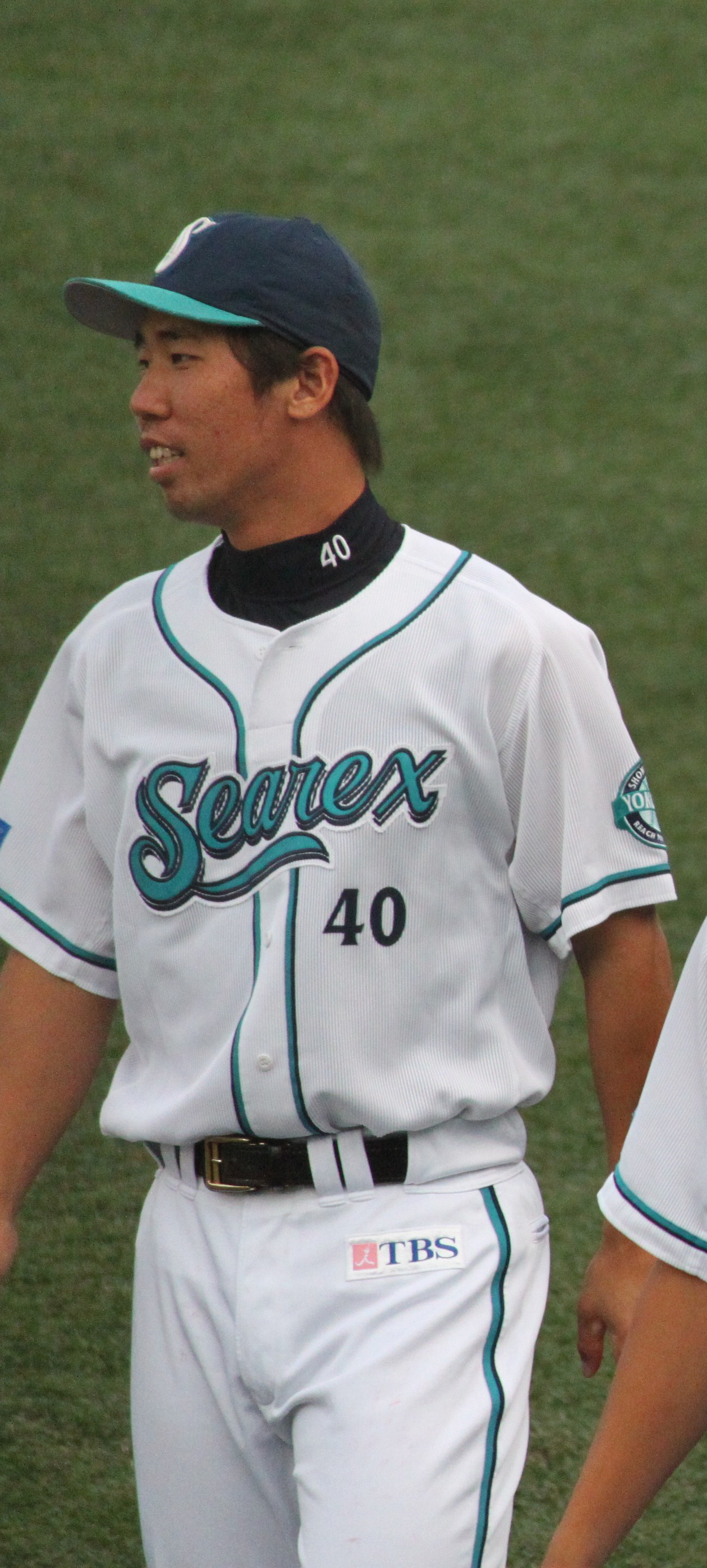 Yoshiyuki Kuwahara, outfielder of the Shonan Searex, at Yokosuka Stadium.